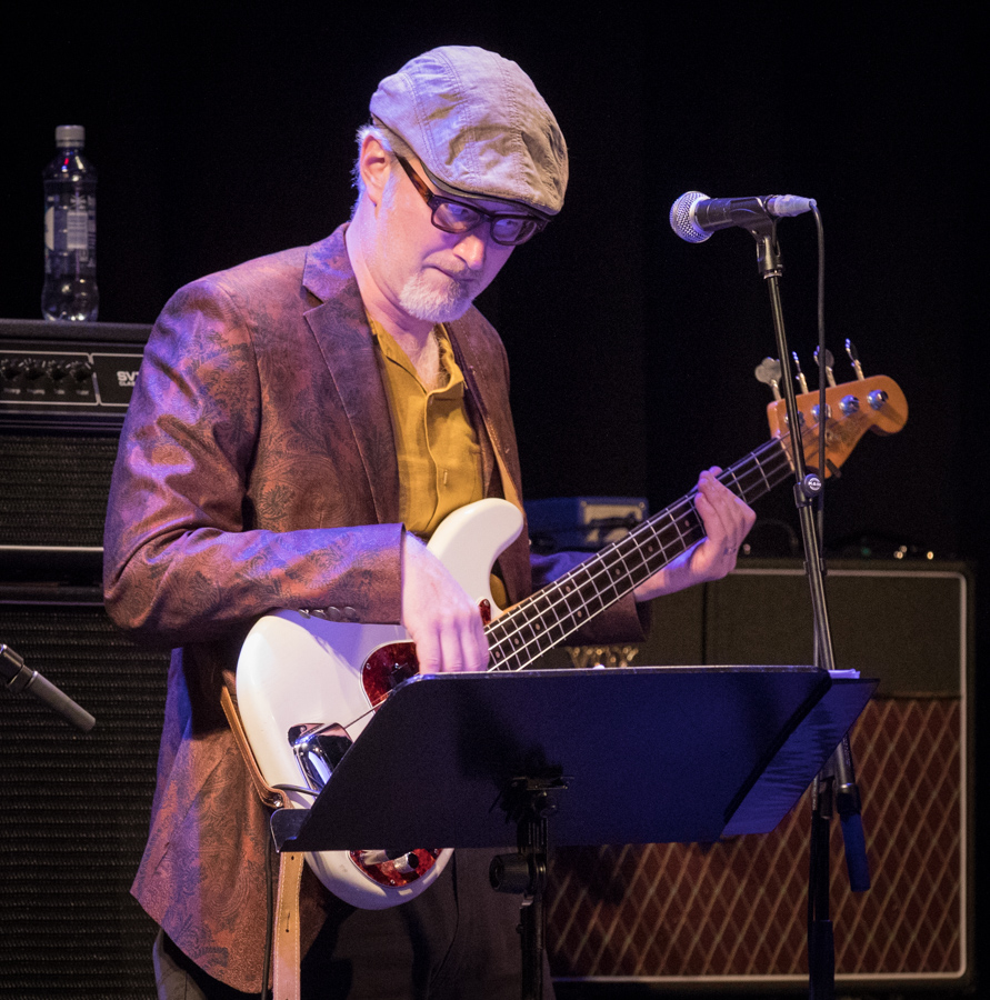 Scott Bomar with Don Bryant and The Bo-Keys at the stage at Cosmopolite. The concert took place on 08. September 2017. Lineup: Don Bryant (vocal), Joe Restivo (guitar), Scott Bomar (bass guitar), Dave Mason (drums), Archie Turner (organ), Kirk Smothers (tenor saxophone) and Marc Franklin (trumpet).